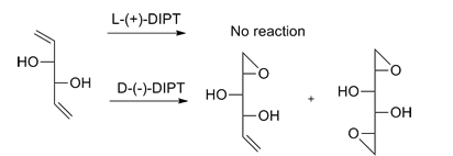 Violation of Sharpless Model with Diols